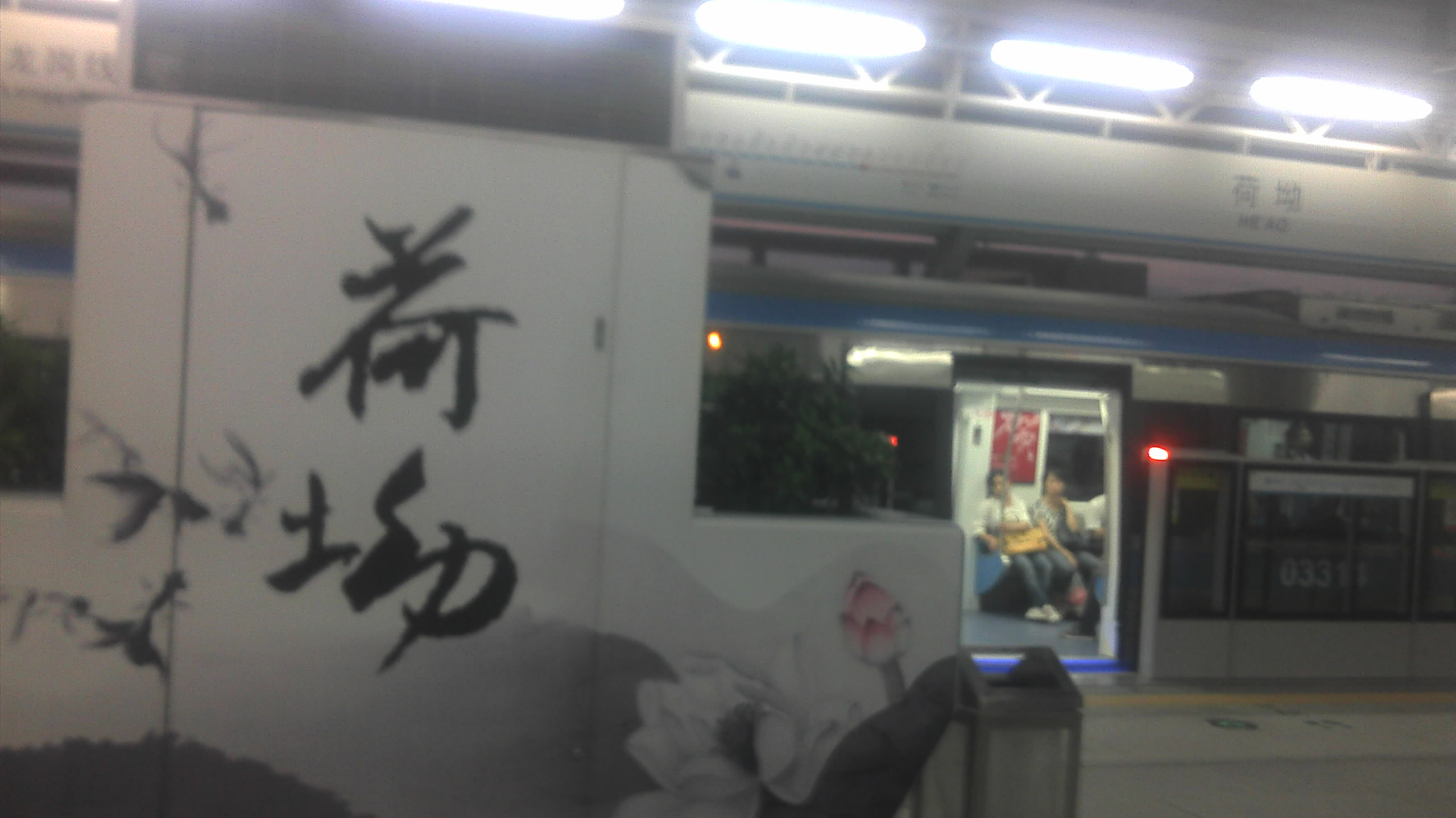 This photo was taken as Oct 14, 2011.